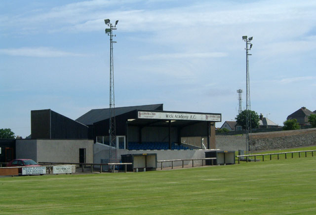 View of main stand at Wick FC's Harmsworth Park.